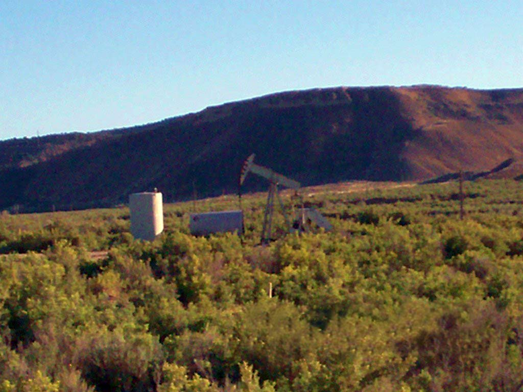 Oil well near Rangely 2007 by David Jolley.